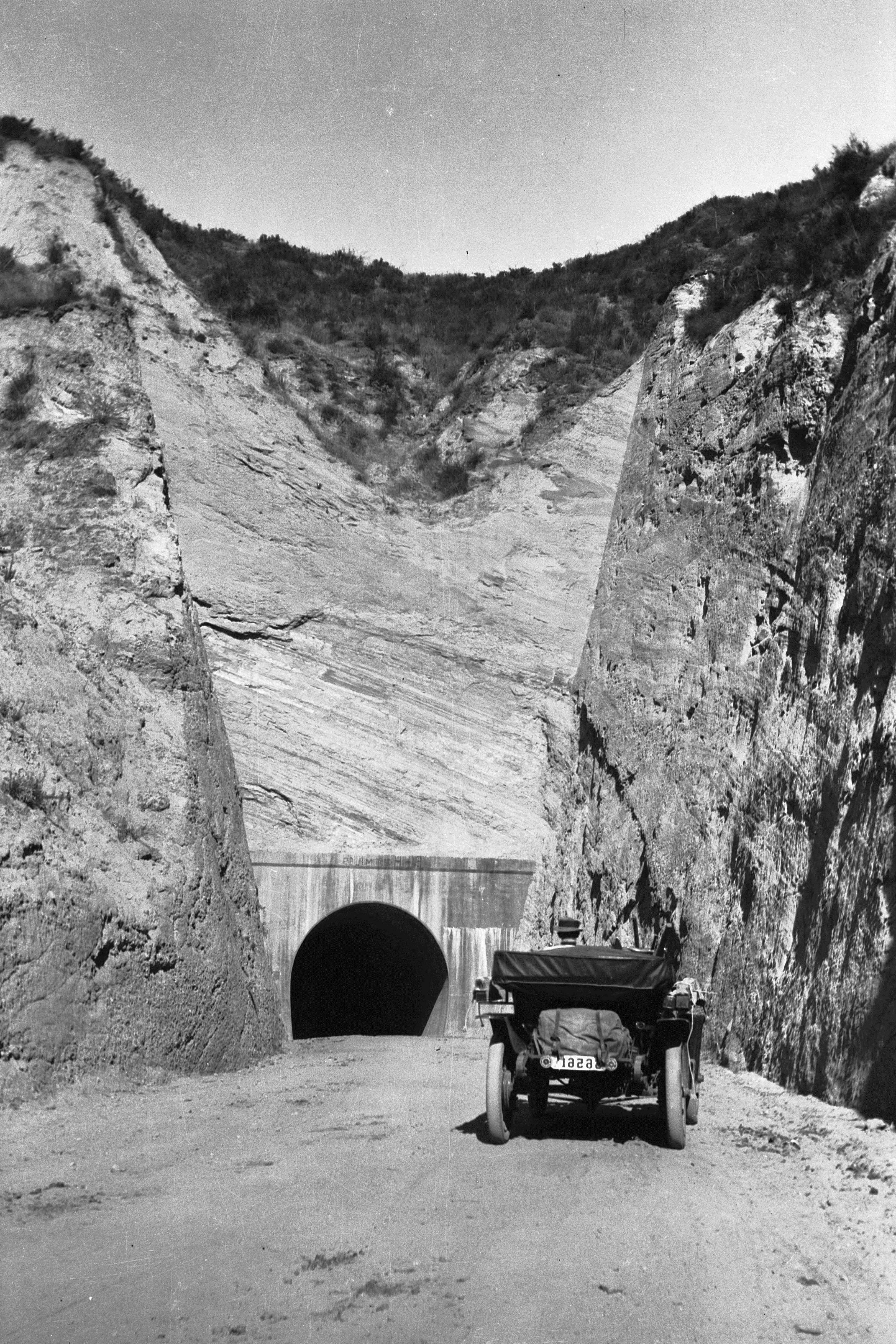 Newhall Tunnel, Newhall Photograph of Newhall Tunnel, Newhall Filename: AAA-NG-8249 Coverage date: circa 1912/1918 Part of collection: Automobile Club of Southern California collection, 1892-1963 Type: images Part of subcollection: Automobile Club of Southern California negatives, 1892-1963 Publisher (of the Digital Version): University of Southern California. Libraries Repository name: Automobile Club of Southern California Archival file: acsc_Volume2/AAA-NG-8249.tiff Geographic subject (city or populated place): Newhall Geographic subject (county): Los Angeles Repository address: 2601 South Figueroa Street, H-118, Los Angeles, CA 90007-3294, USA Format (aacr2): photograph : photonegative, b&w Rights: Automobile Club of Southern California Call number: Negative Box 58 (8249) Repository Contributing entity: Automobile Club of Southern California Format (aat): negatives; photographs Geographic subject (state): California Legacy record ID: acsc-m1078 Access conditions: 213-741-4486; Creator: Automobile Club of Southern California